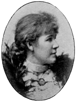 Image scanned from the book "Svenskt Porträttgalleri XX - Arkitekter, Bildhuggare, Målare m.fl. " ("Swedish Portrait Gallery XX - Architects, Sculptors, Painters, ") published 1901